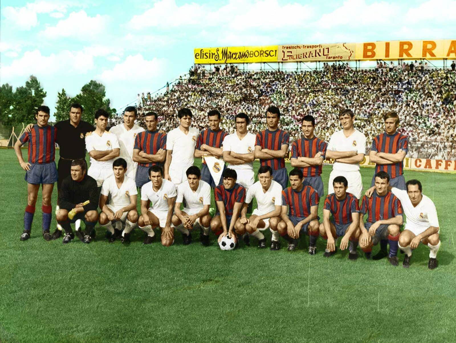 Taranto (Italy), Salinella Stadium, September 8, 1968. A mixed photo group before the start of a friendly match between A.S. Taranto versus Real Madrid C.F. (0-4).